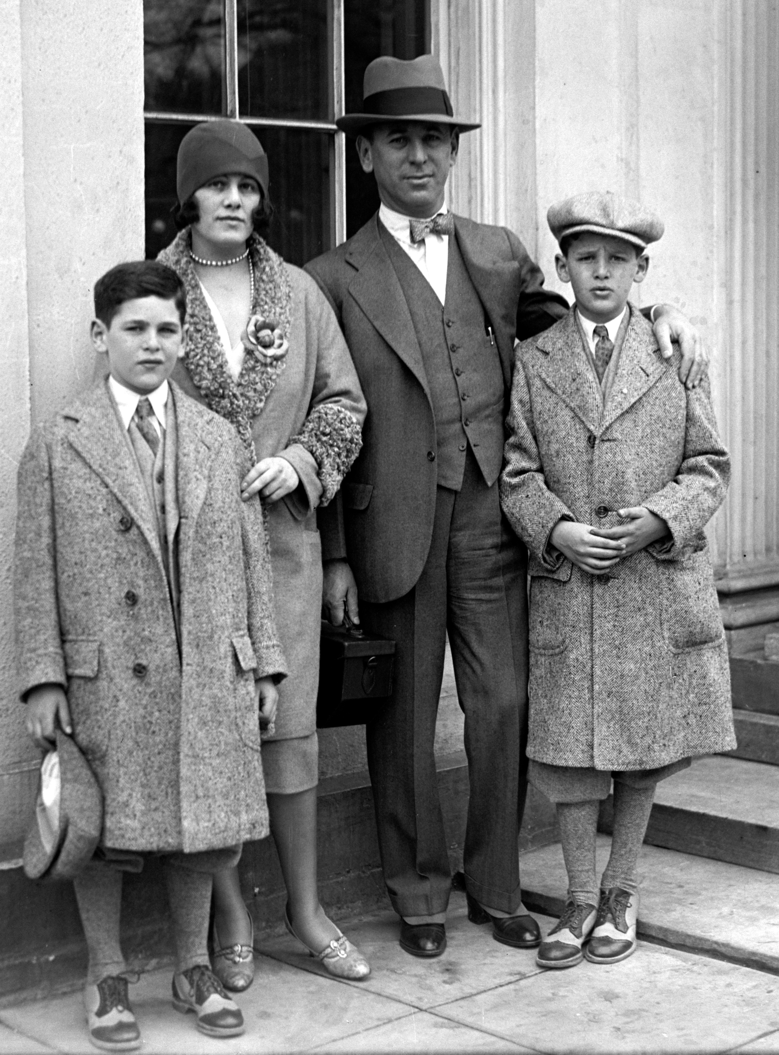 Rube Goldberg & family, 4/4/29